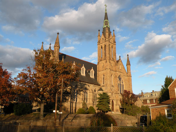 Picture of St. Philip Roman Catholic Church located at 50 West Crafton Avenue in Crafton, Pennsylvania, on October 31, 2010. Built in 1906, architect William P. Ginther, the church is on the List of Pittsburgh History and Landmarks Foundation Historic Landmarks.